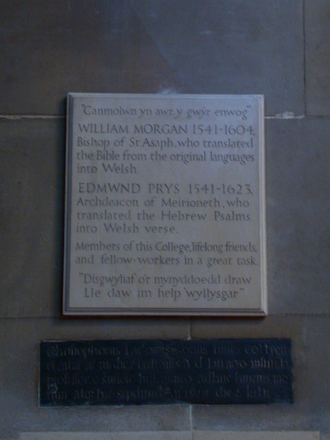 Memorial, St John's College chapel Memorial to William Morgan (1541-1604) William_Morgan_%28Bible_translator%29 who produced the definitive Welsh language Bible, and his co-worker Edmwnd Prys (1541-1623). The Welsh inscription at the top translates "Let us now praise famous men" (Ecclesiasticus xliv. 1.) That at the bottom is from Prys's metrical version of Psalm 121, "I will lift up mine eyes unto the hills, from whence cometh my help." A translation of the Welsh version would be something like: "I look to the far mountains From where comes a willing help for me" (thanks to Alan Fryer for this).